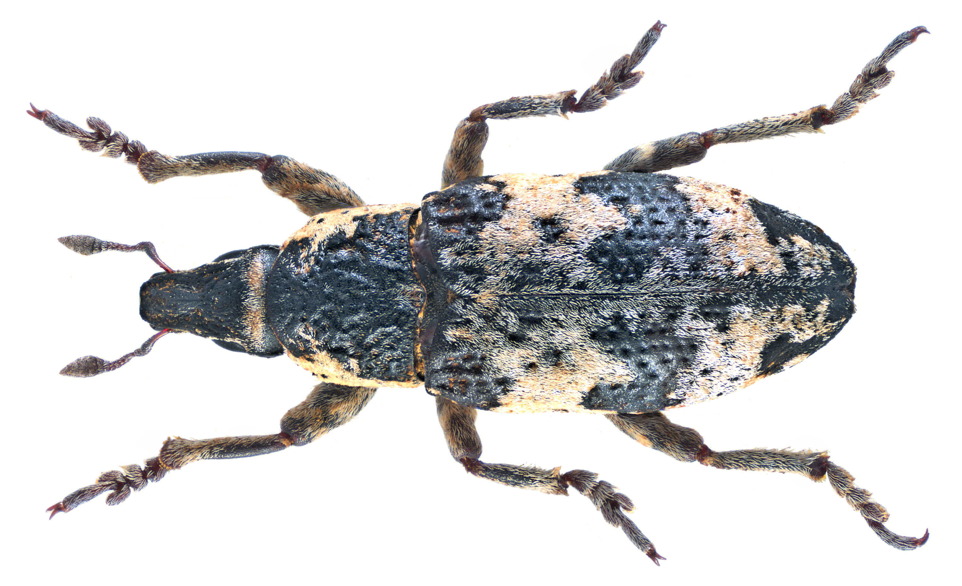 Family: Curculionidae Size: 9,1 mm (6,0 to 11,0 mm) Distribution: Siberia, Asia Minor, Europe Ecology: lives on Salsolaceen (Chenopodium, Atriplex) Location: Bulgaria, Varna Prov., Nr. Vranina leg.det. M.G.Morris, 18.VI.2006 Photo: U.Schmidt, 2015